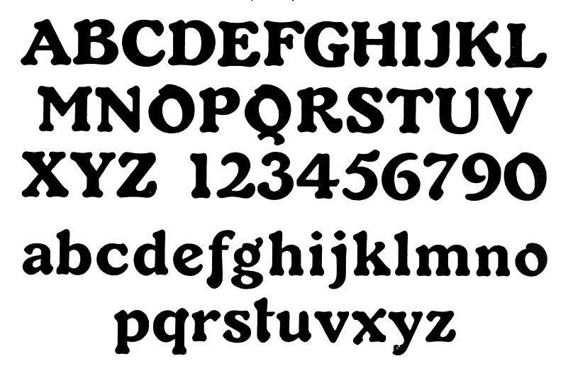 Robur typeface specimen cropped from Thibaudeau 1924